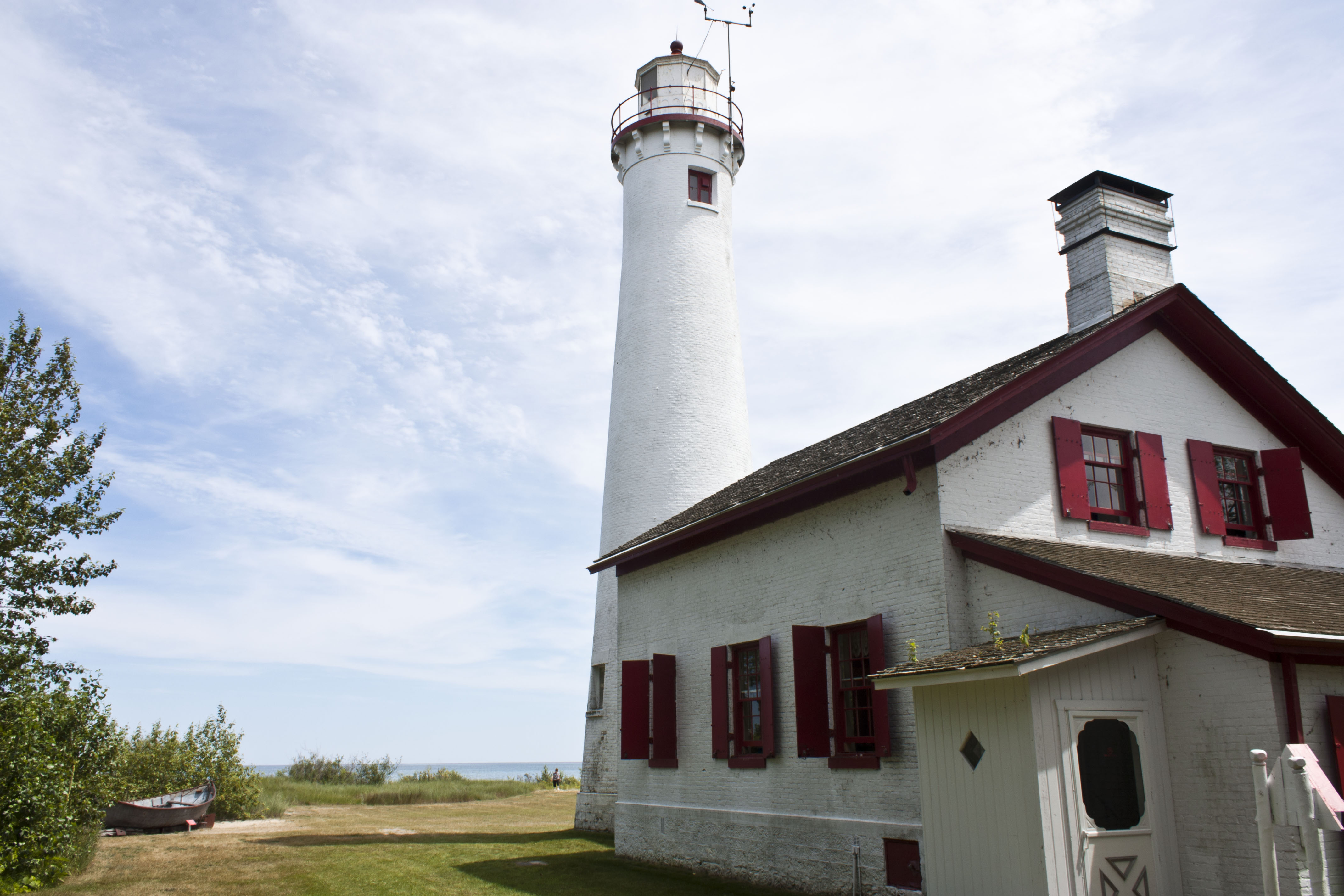 View of the Sturgeon Point Lighthouse in Harrisville, Michigan. The lighthouse was completed in 1870.